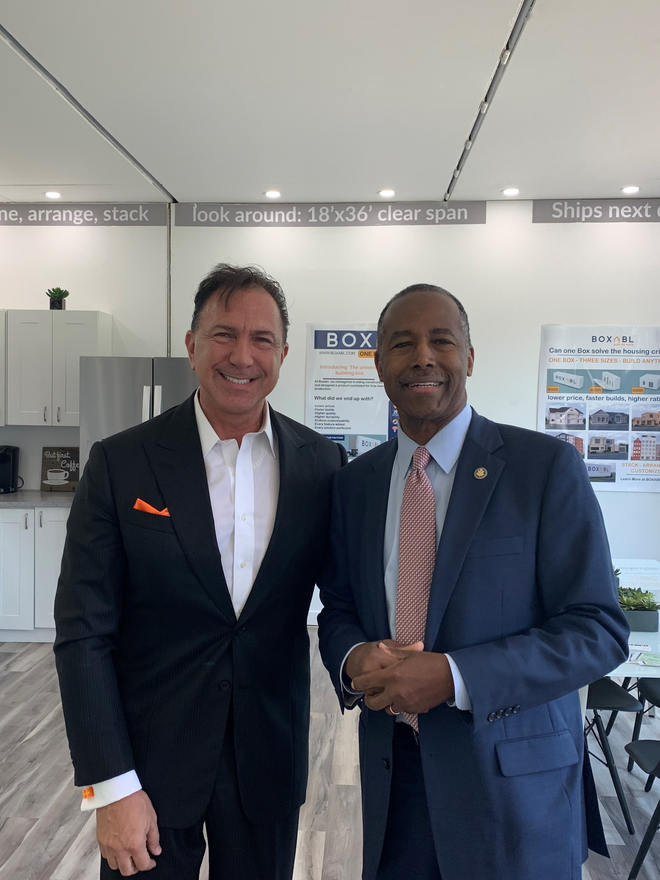 Boxabl CEO Paolo Tiramani with HUD Secretary Dr. Ben Carson